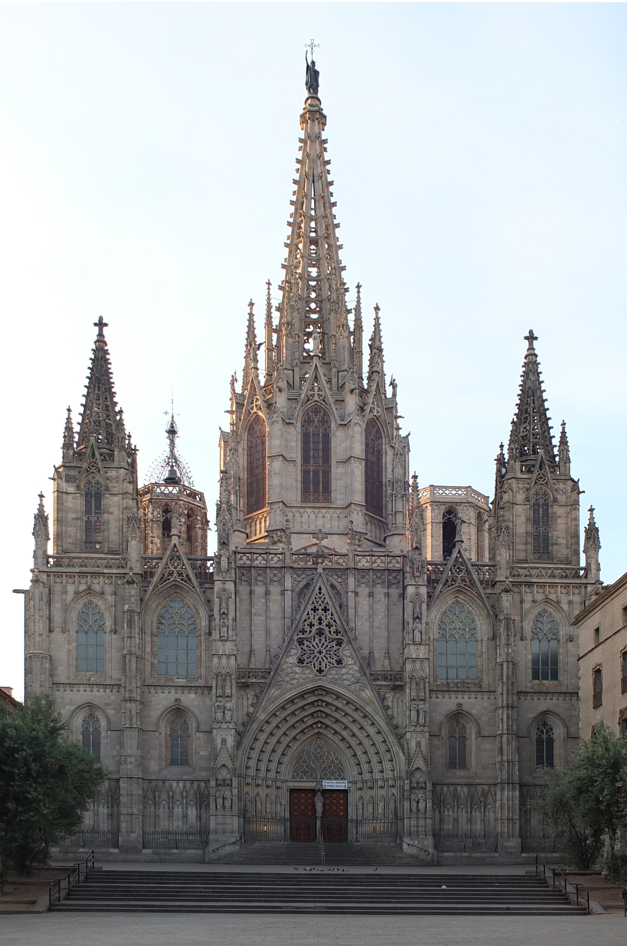 The façade of the Cathedral of the Holy Cross and Saint Eulalia in Barcelona.